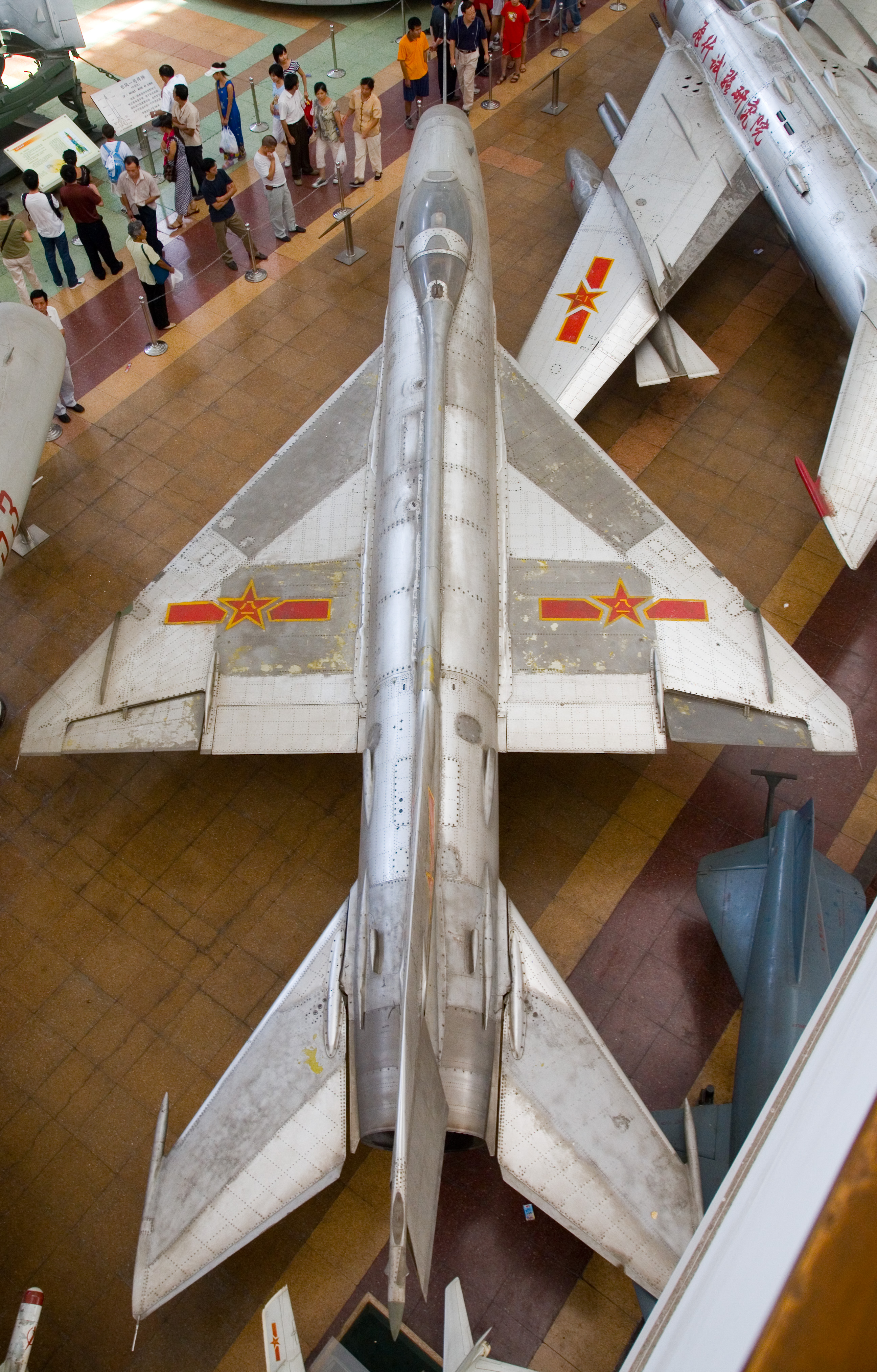 A Chinese J-7I fighter at the Beijing Military Museum from above.